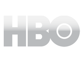 Silver glossy variant